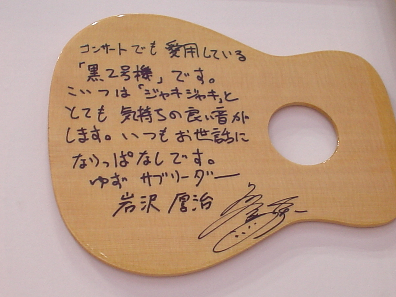 YUZU Comment Guitar Plate in Instrument Show(2003.10.25 Pacifico Yokohama, Japan) Author: Photo by CasinoKat